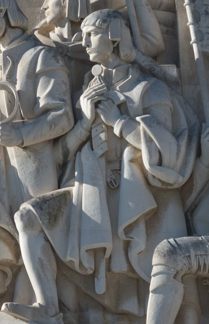 Effigy of Gaspar Côrte-Real (c. 1450 – c. 1501?), Portuguese navigator, in the Padrão dos Descobrimentos (Monument to the Discoveries) in Lisbon, Portugal.